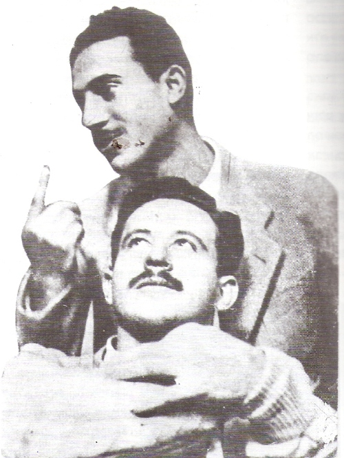 Eliyahu Hakim and Eliyahu Bet-Zuri during trial